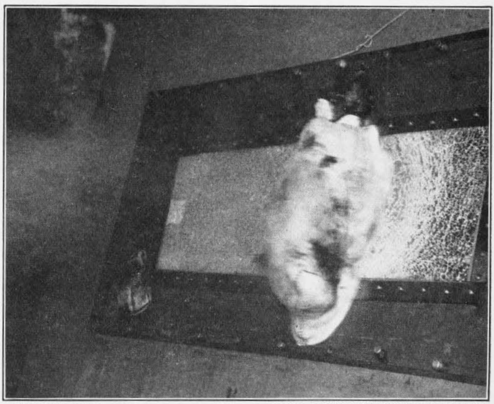 Photograph from 01 May 1943 issue of Naval Aviation News, article called "Bird-proof Windshield". Modern jet windshields must withstand the impact of a 4 pound (1.8kg) bird at the design cruise speed of that aircraft.